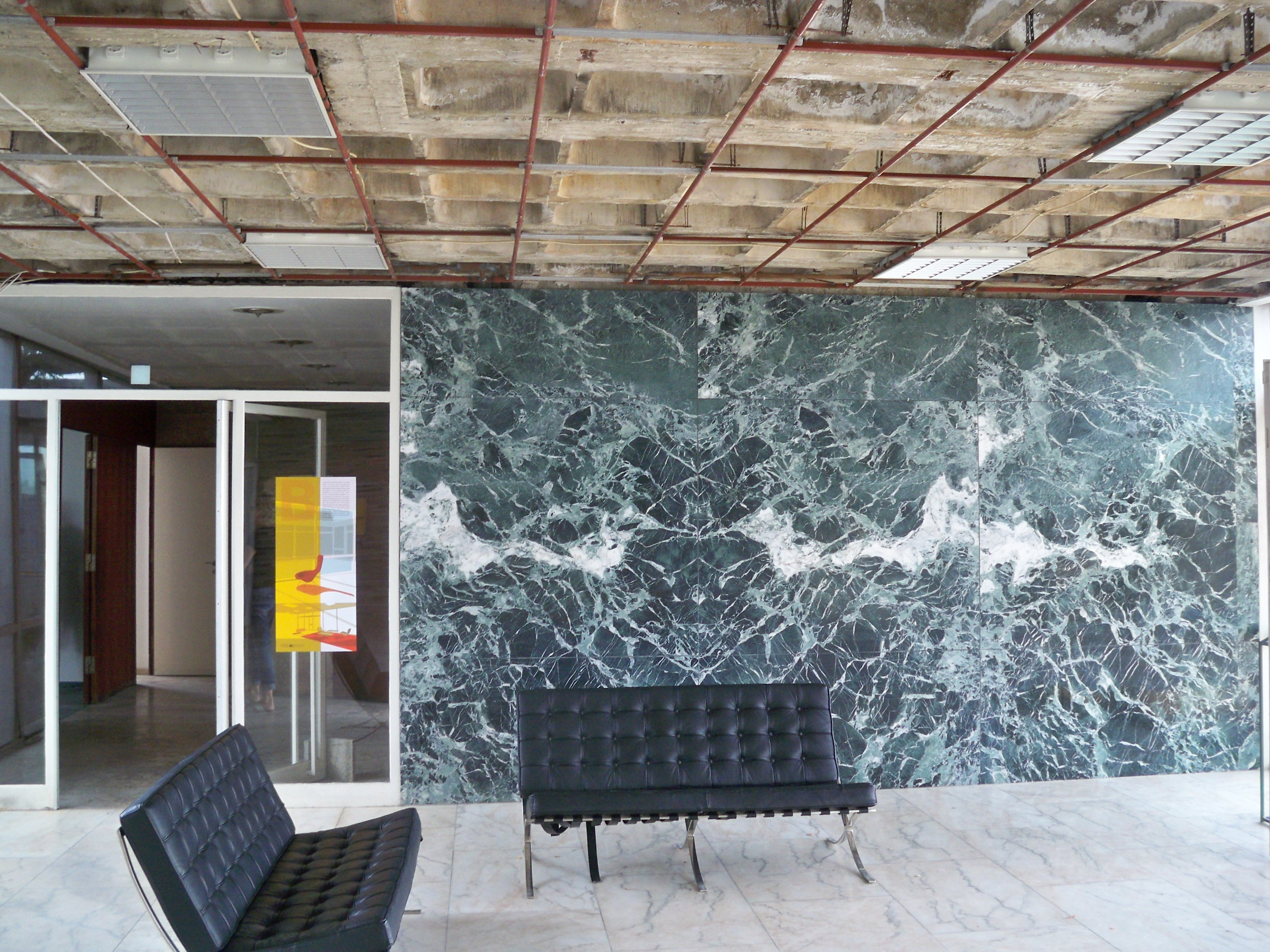 Wolfsburg, Lower Saxony, Billen-Pavillon, entrance hall